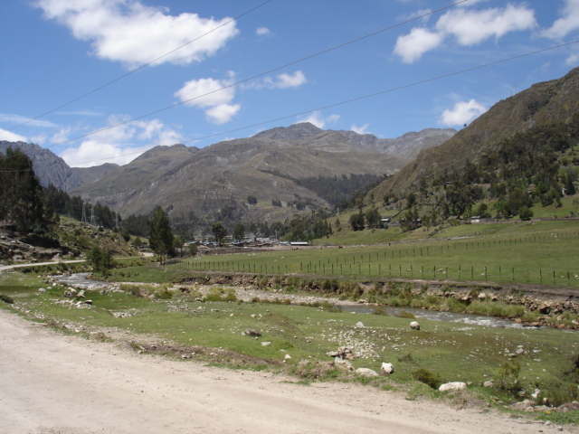 Ogopampa, north of Huallanca